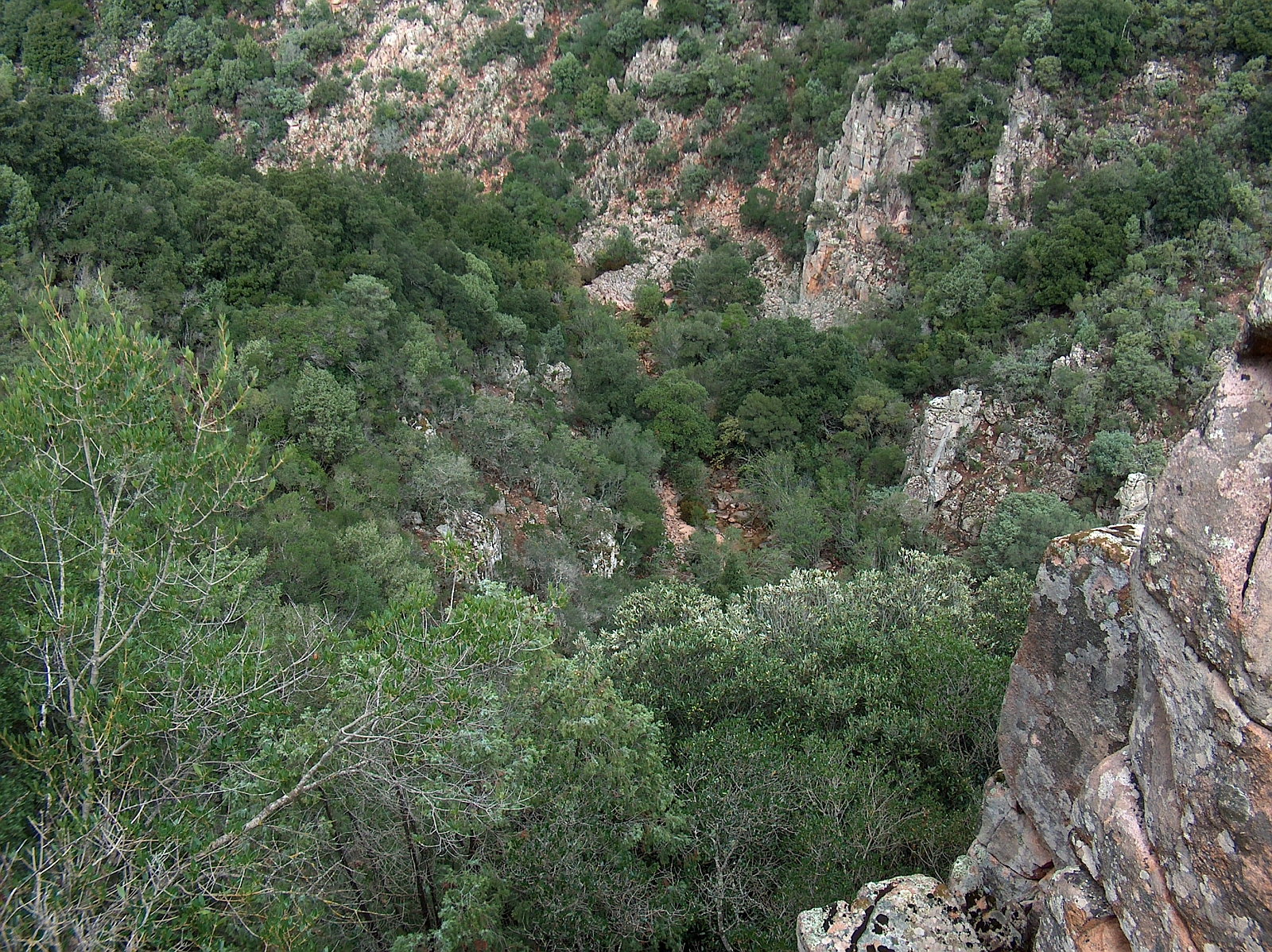 Shrubs at the valley bottom in the gorge of Gutturu Mannu, Park of Sulcis